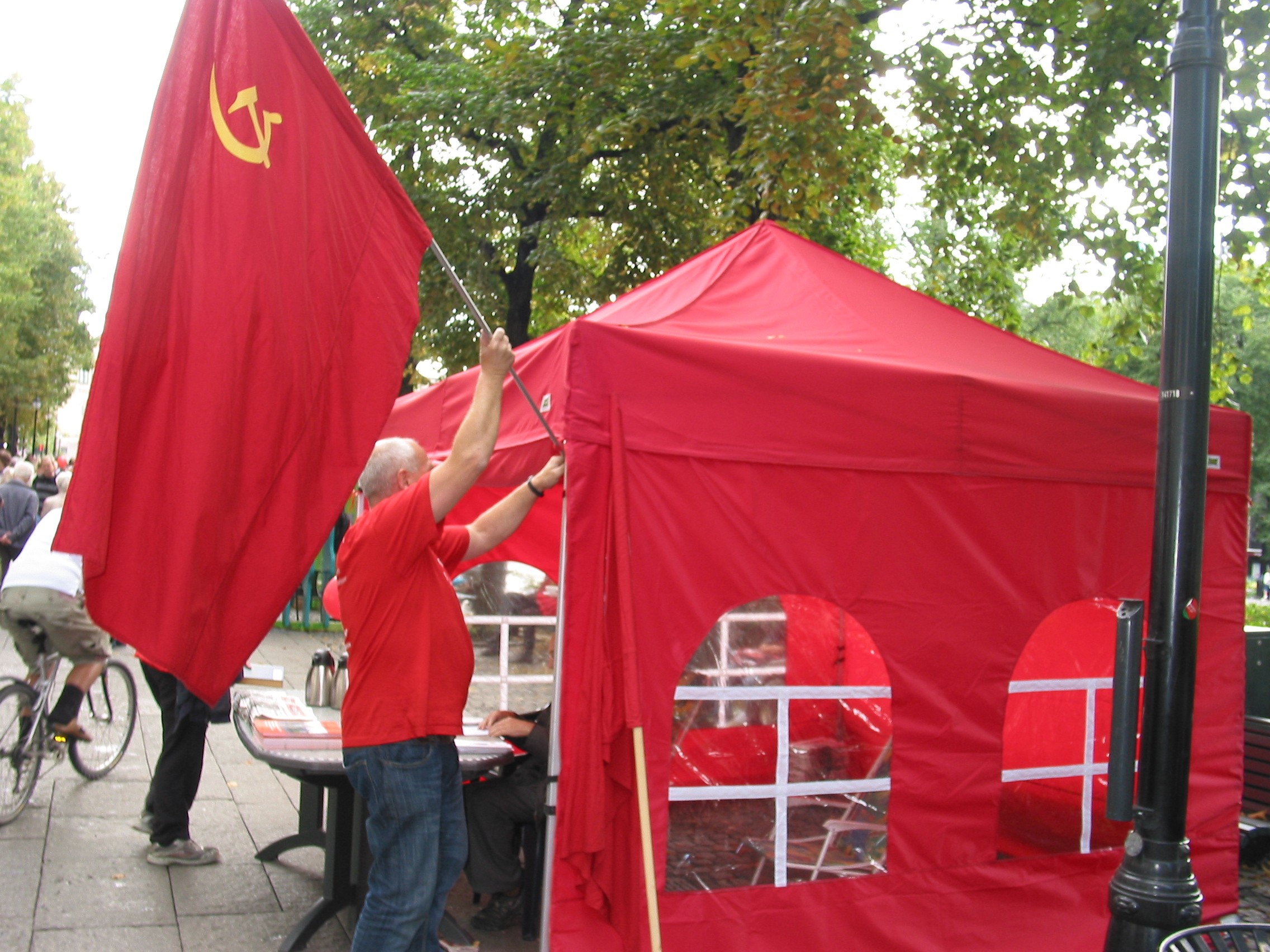 Communist Party of Norway (Norges Kommunistiske Parti) campaign booth in Karl Johans gate, Oslo ahead of the 2009 Norwegian election.